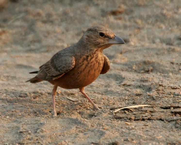 Rufous-tailed Lark Ammomanes phoenicurus in Kawal Wildlife Sanctuary, Andhra Pradesh, India.